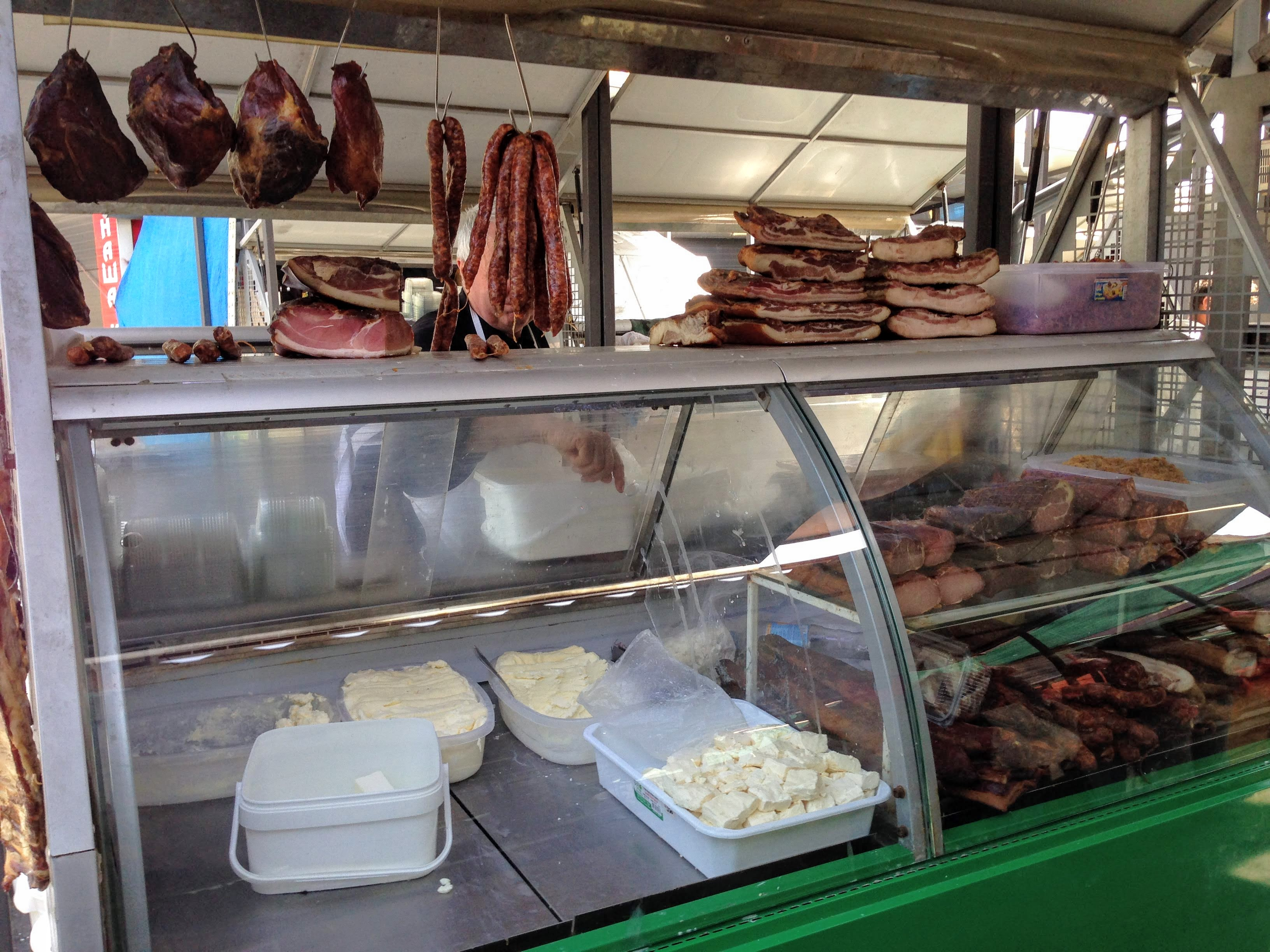 Zemun Marketplace